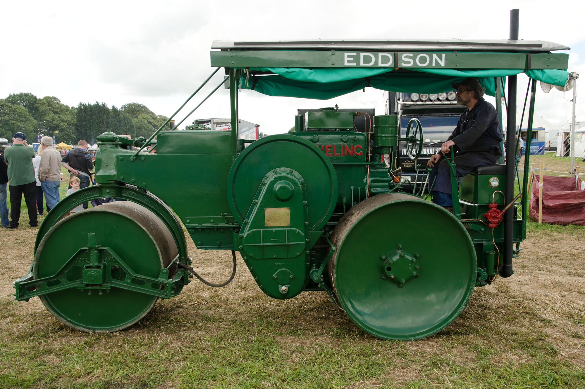 1938 Aveling-Barford Diesel Road Roller Cheshire Steam Fair 13/07/2014